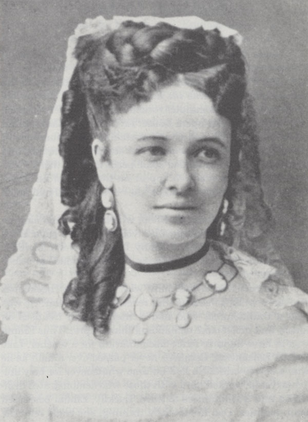 Emma Albani, 1870, in the costume for Amina in La Sonnambula